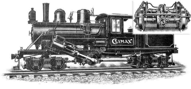 Class B Climax system steam locomotive, truck shown on top right. Built from Climax Manufacturing Company catalogue images.